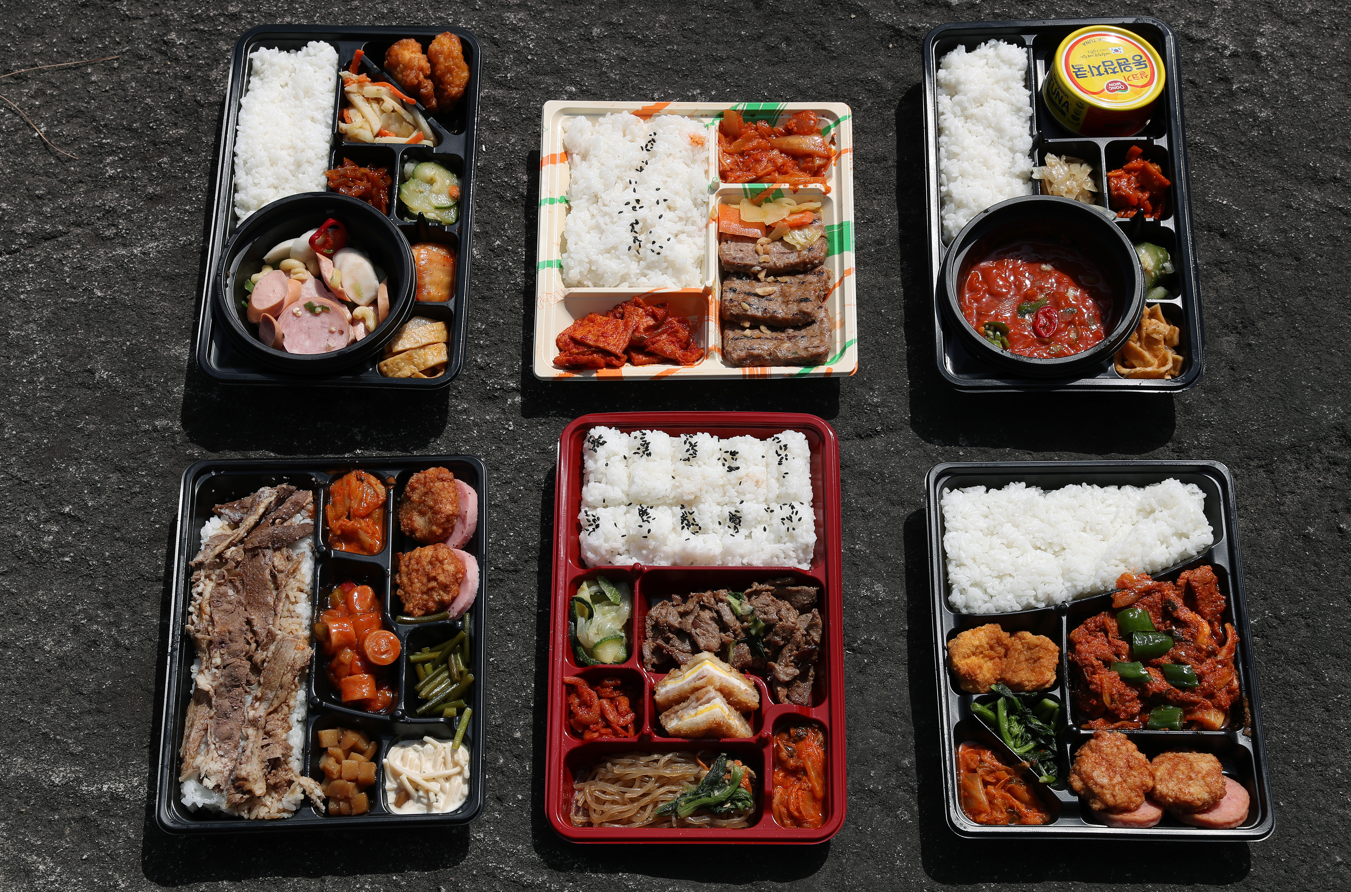 Korean Lunchbox at Convenience Store